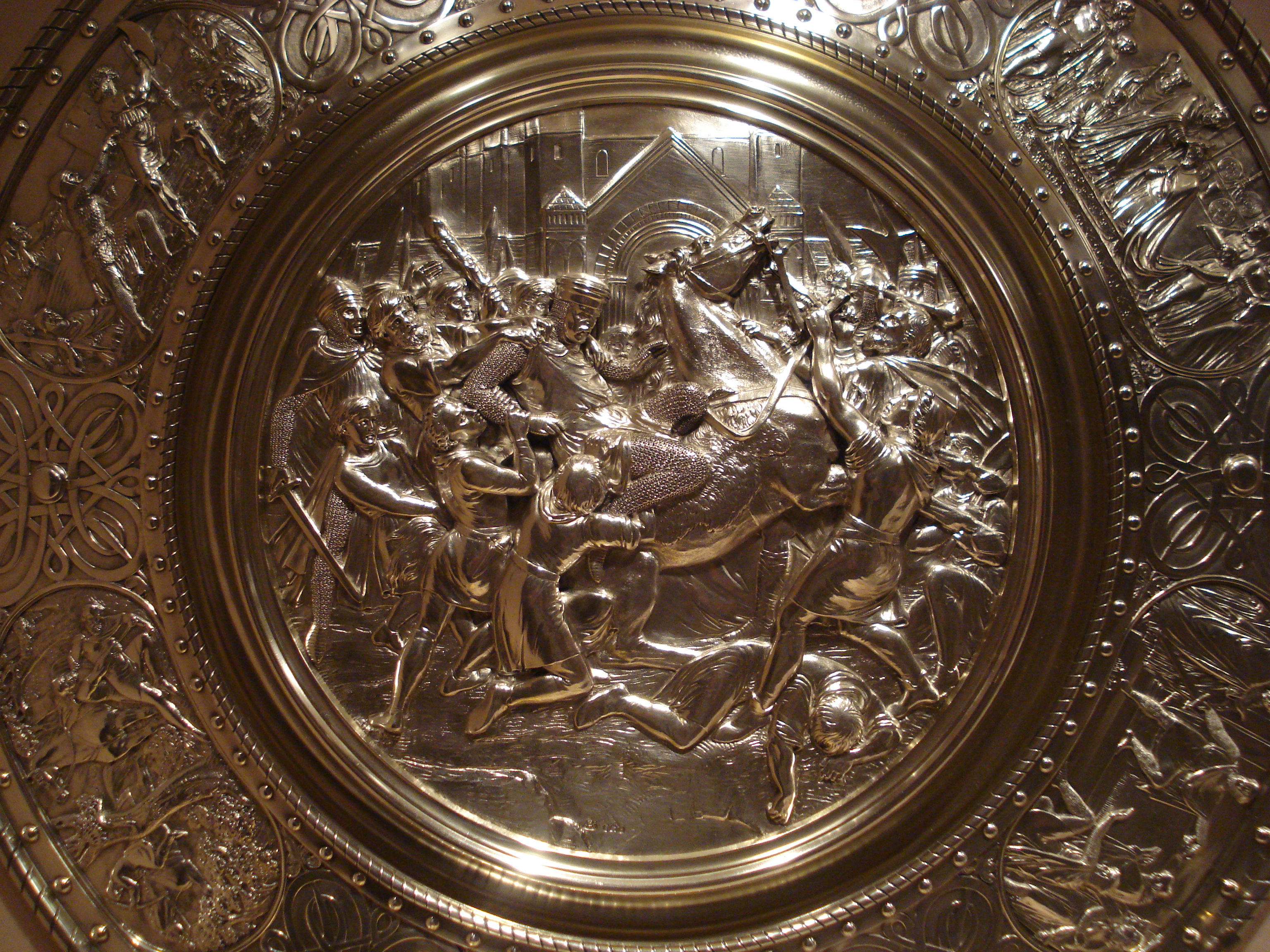 The Stockbridge Cup. Silver gilt. Prize for the flat race that was run annually in Nottingham. Designed by Henry Hugh Armstead, and produced by Hancock and Company, 1870-71. In the collection of the Metropolitan Museum of Art. Cup depicts the ambush of Henry I at Dives in Normandy.